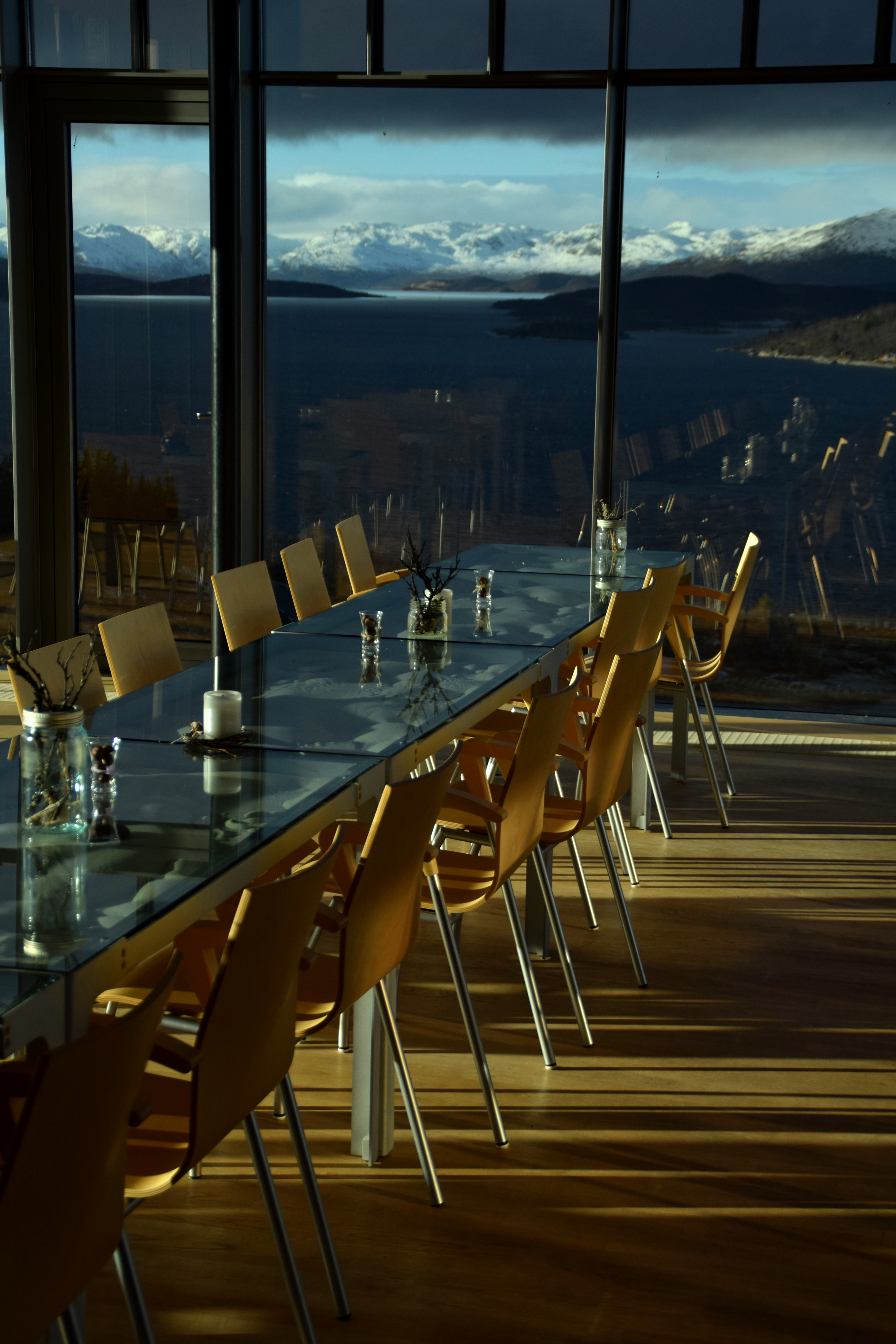 The café at the Visitorcenter Hardangervidda